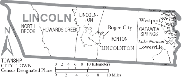 Map of Lincoln County, North Carolina, United States with township and municipal boundaries